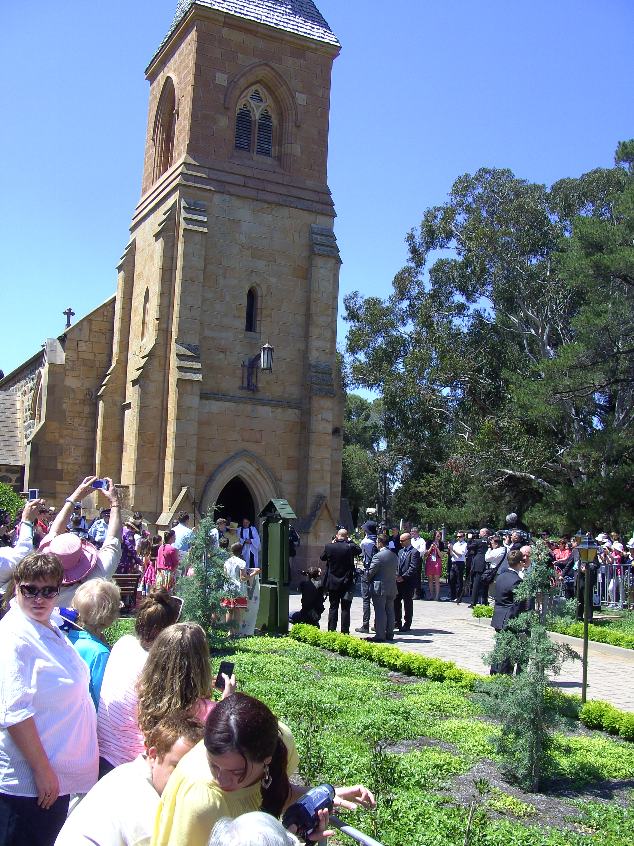 At St John's Church, Reid, Australian Capital Territory, on 23 October 2011, HM Queen Elizabeth II and HRH Prince Philip attended the 11.15am service and were greeted by well-wishers. The Queen is seen emerging from the church at about noon.